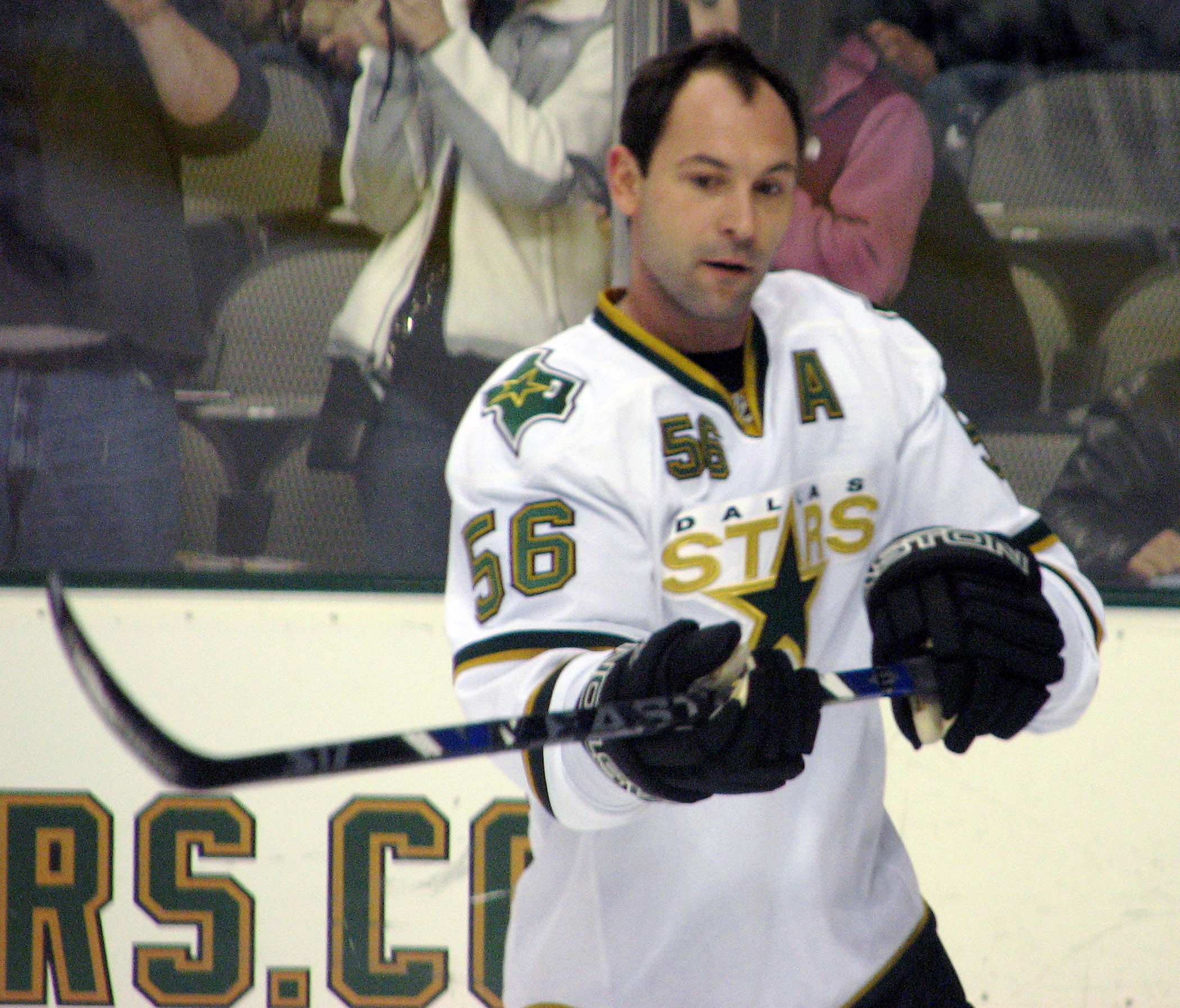 Russian ice hockey player Sergei Zubov.